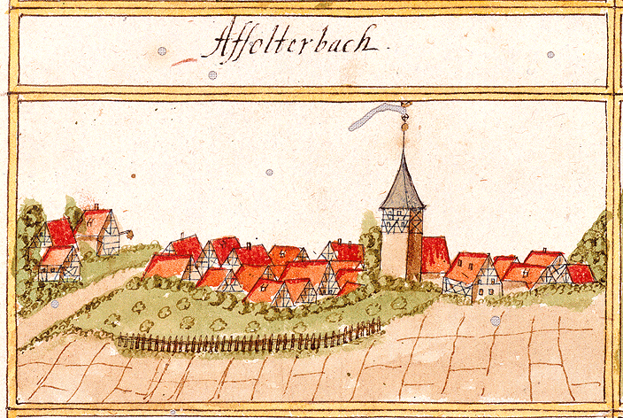 View of Affalterbach from the forest register books created by Andreas Kieser